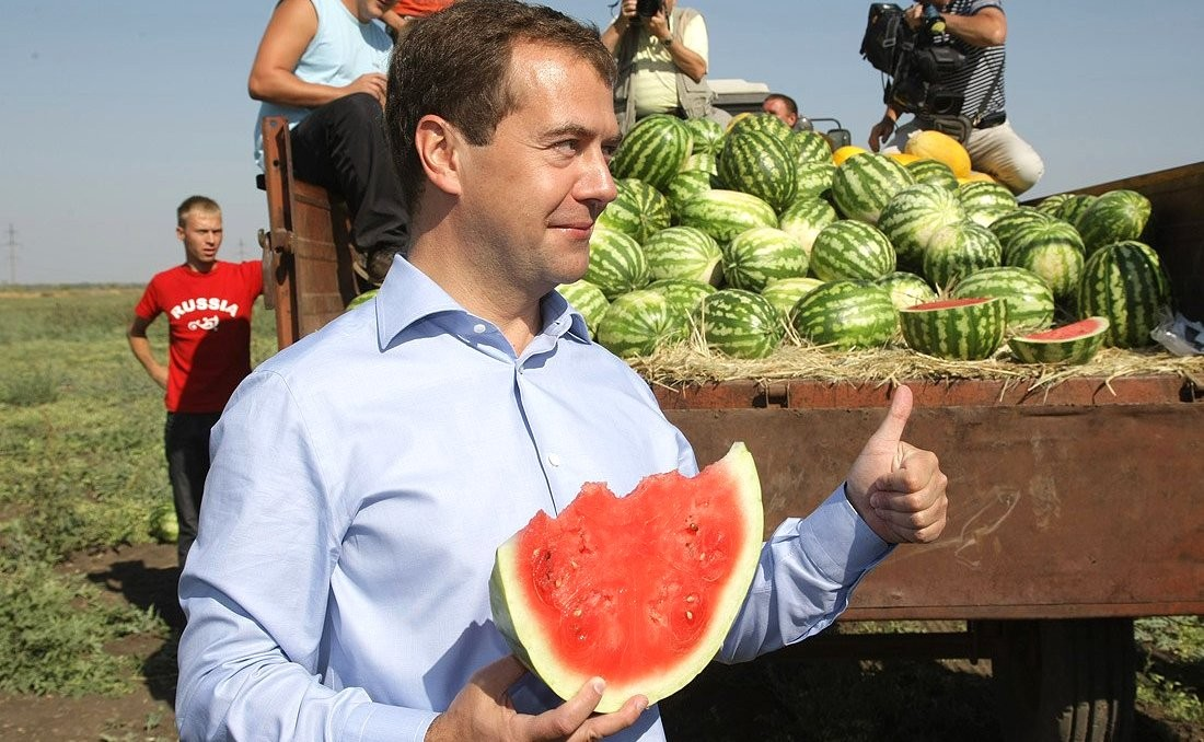 Visiting the Grachinoye farm.